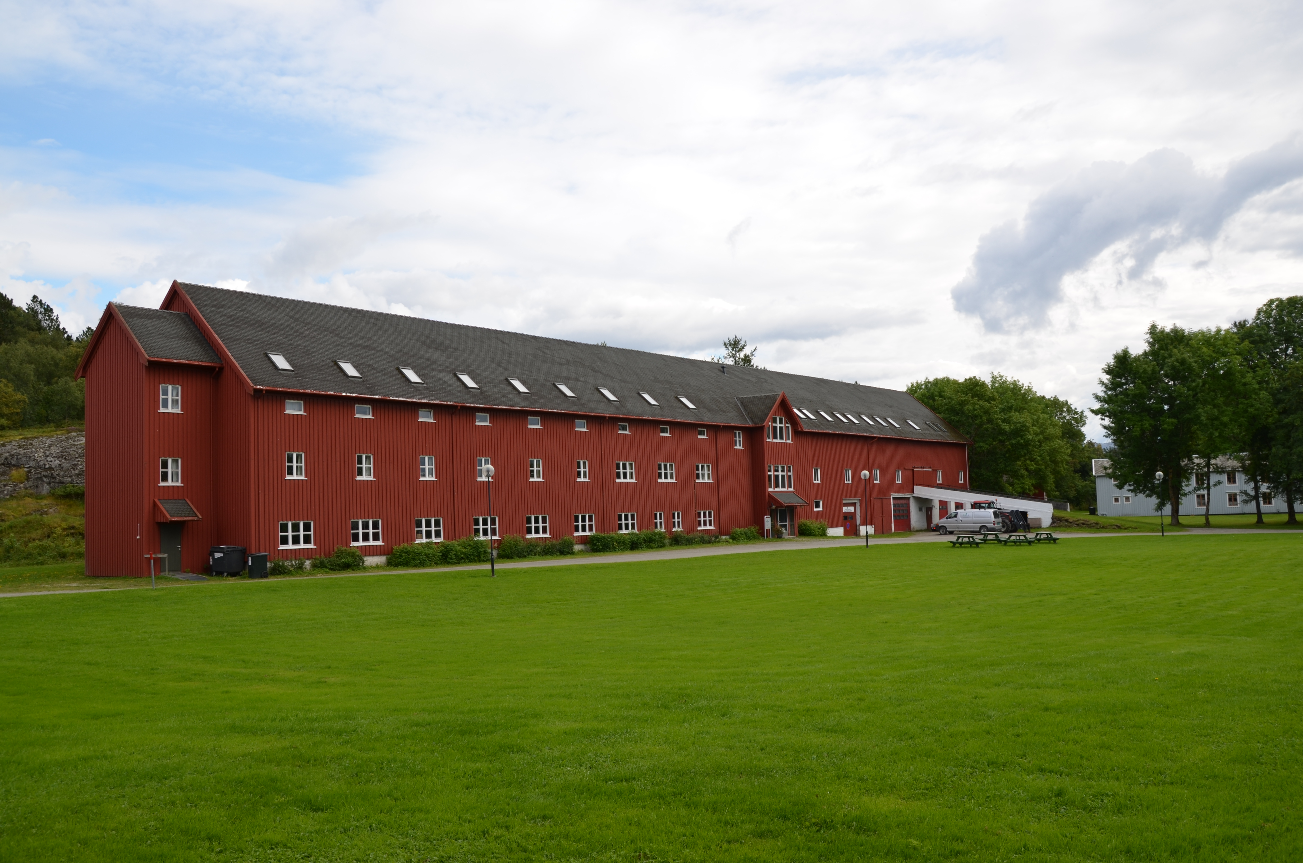 Bioforsk Tjøtta